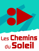 Logo des Chemins du Soleil